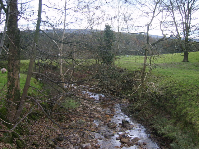 River Grizedale From the bridge at Lower Lee. The River is at least 1.5 miles long and soon meets the Tarnbrook Wyre